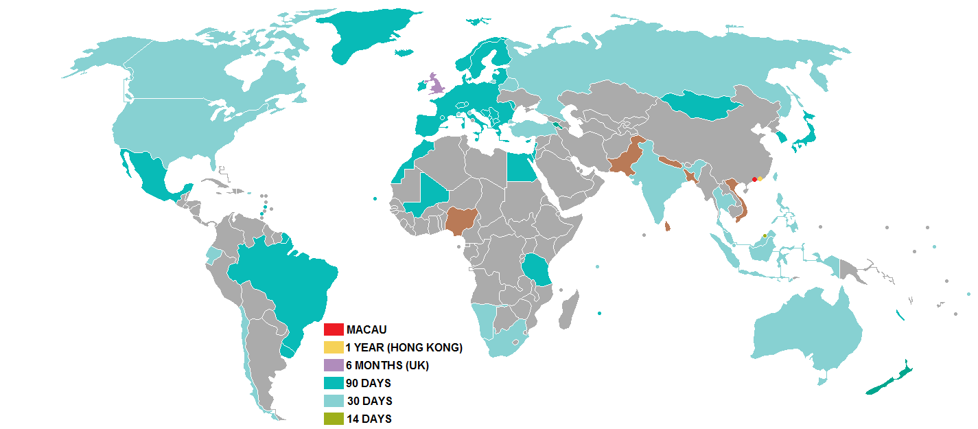 Visa policy of Macau Macau Visa-free - 1 year (Hong Kong) Visa-free - 6 months (UK) Visa-free - 90 days Visa-free - 30 days Visa-free - 14 days Visa-free - 7 days (Mainland China) Visa on arrival Visa required in advance (Visa on arrival ineligible)